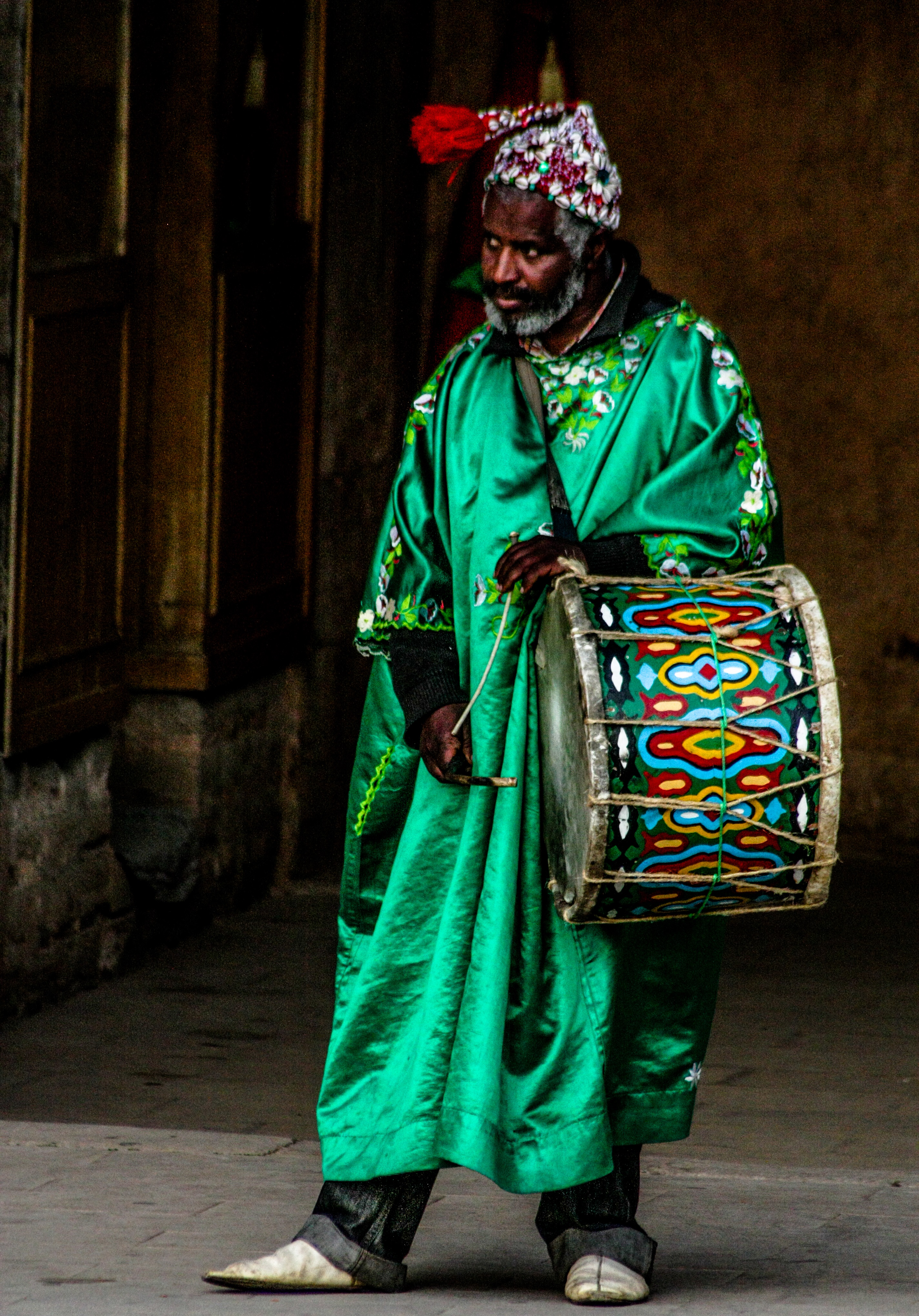 This is an image with the theme "Play" from: Morocco